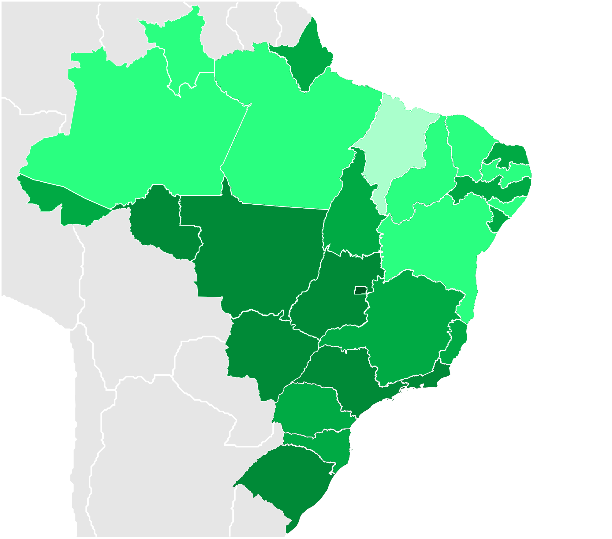 Brazilian States by telephone density.